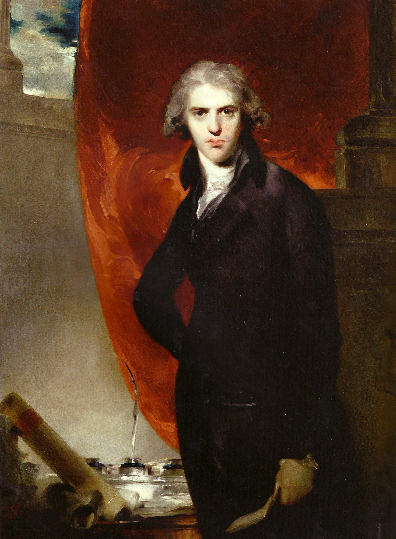 Portrait of Robert Jenkinson, 2nd Earl of Liverpool, Prime Minister of United Kingdom